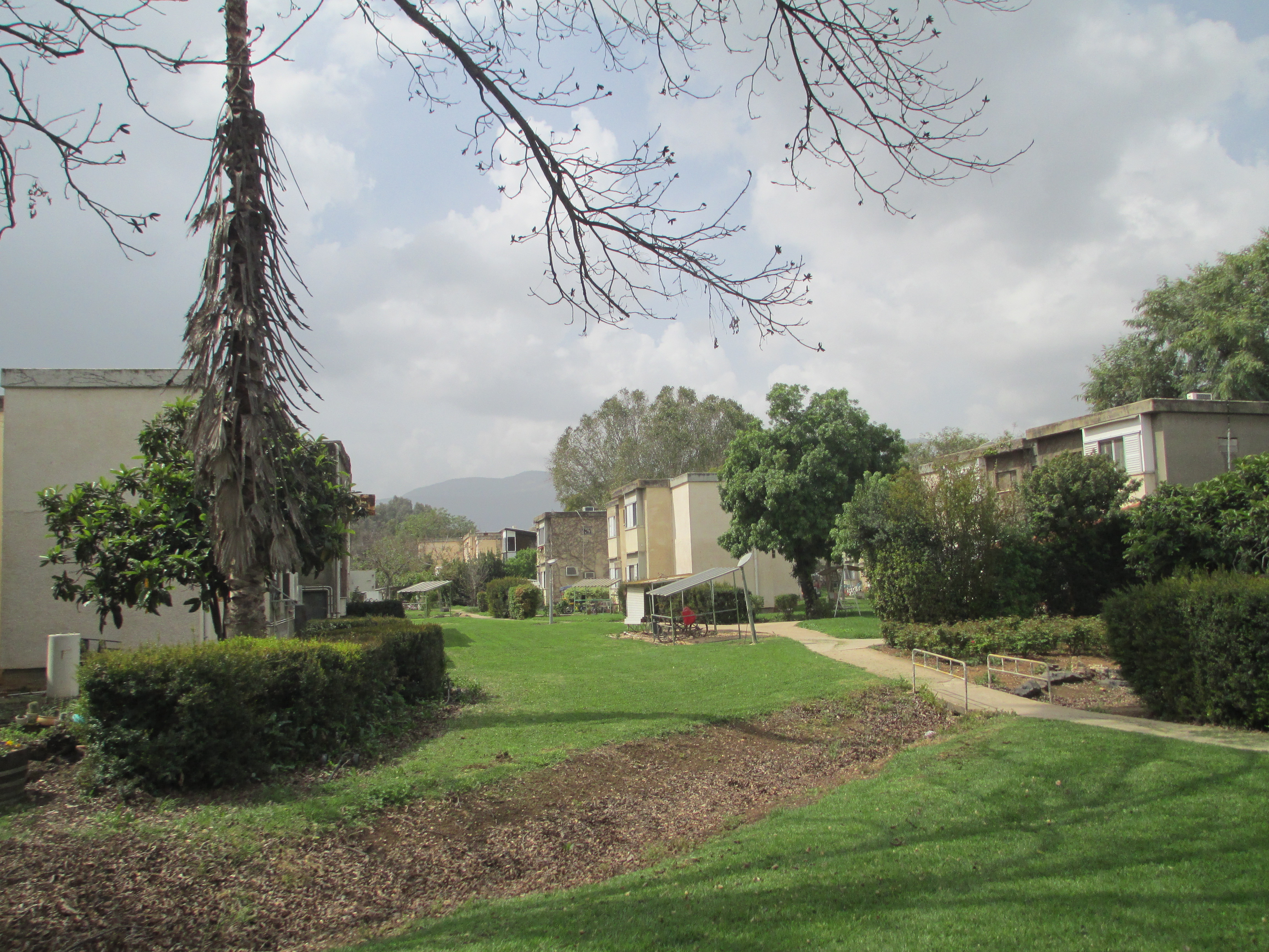 Kfar Blum